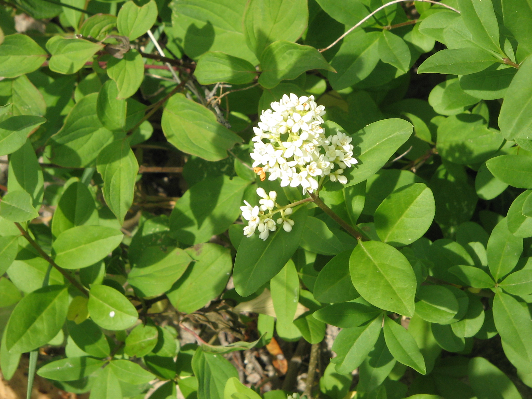 Ligustrum ovalifolium